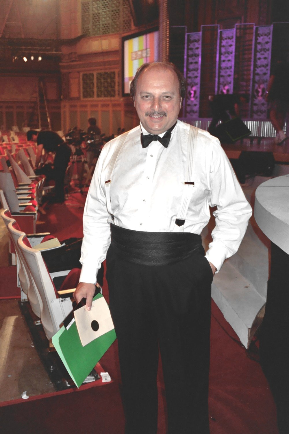 1994 Emmy Awards NOTE: Permission granted to copy, publish, broadcast or post any of my photos, but please credit "photo by Alan Light" if you can. Thanks. Scanned from the original 35MM film negative.